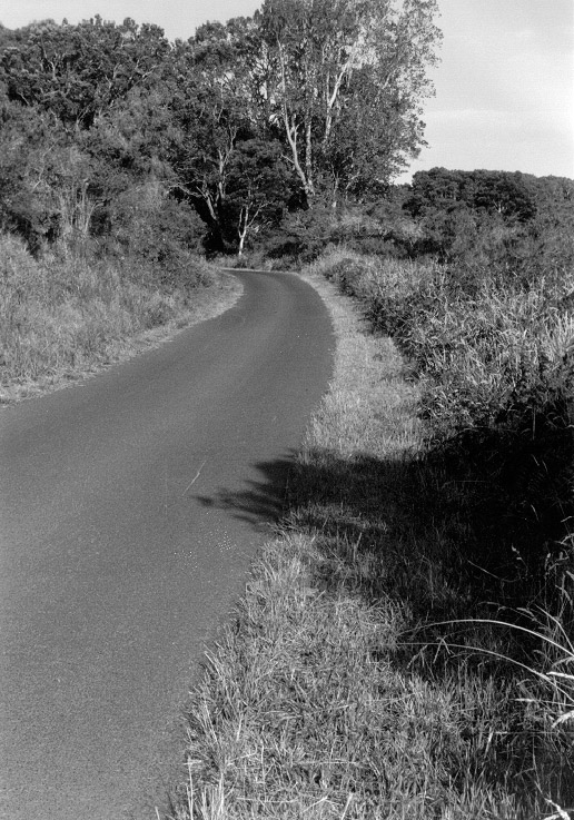 Ainapo Trail — in Hawaii Volcanoes Natonal Park, on the Big Island of Hawaiʻi. The primary route to the summit of Mauna Loa from prehistory to 1916. On the National Register of Historic Places in Hawaii Volcanoes National Park, within the state of Hawaii.